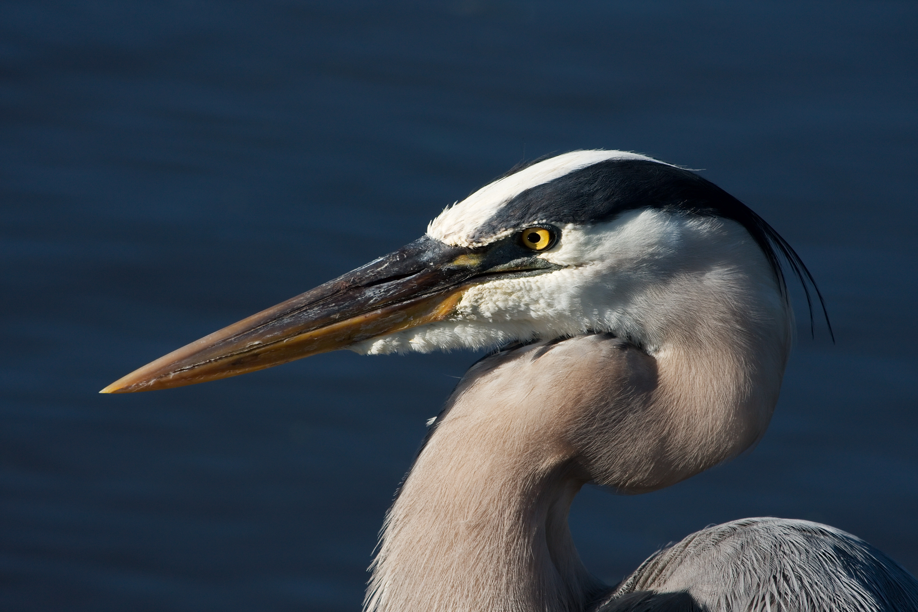 A Great Blue Heron (Ardea herodias), taken at the Wakodahatchee Wetlands, Delray Beach, Florida, USA.